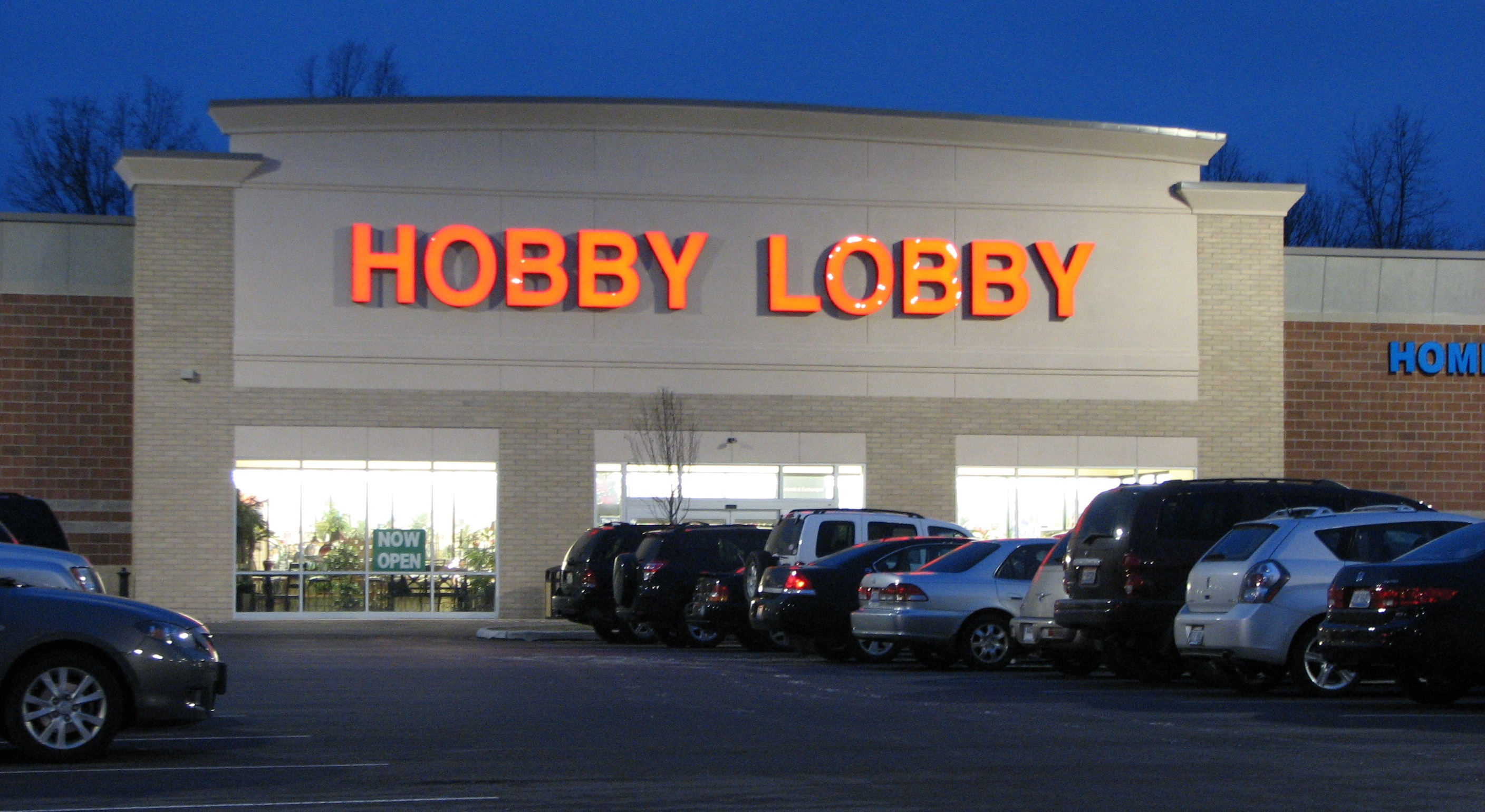 Hobby Lobby store in Stow, Ohio